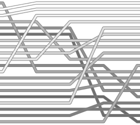 Cycle sort sorting an array, visualized by sortvis.